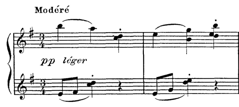 Valse No. 3